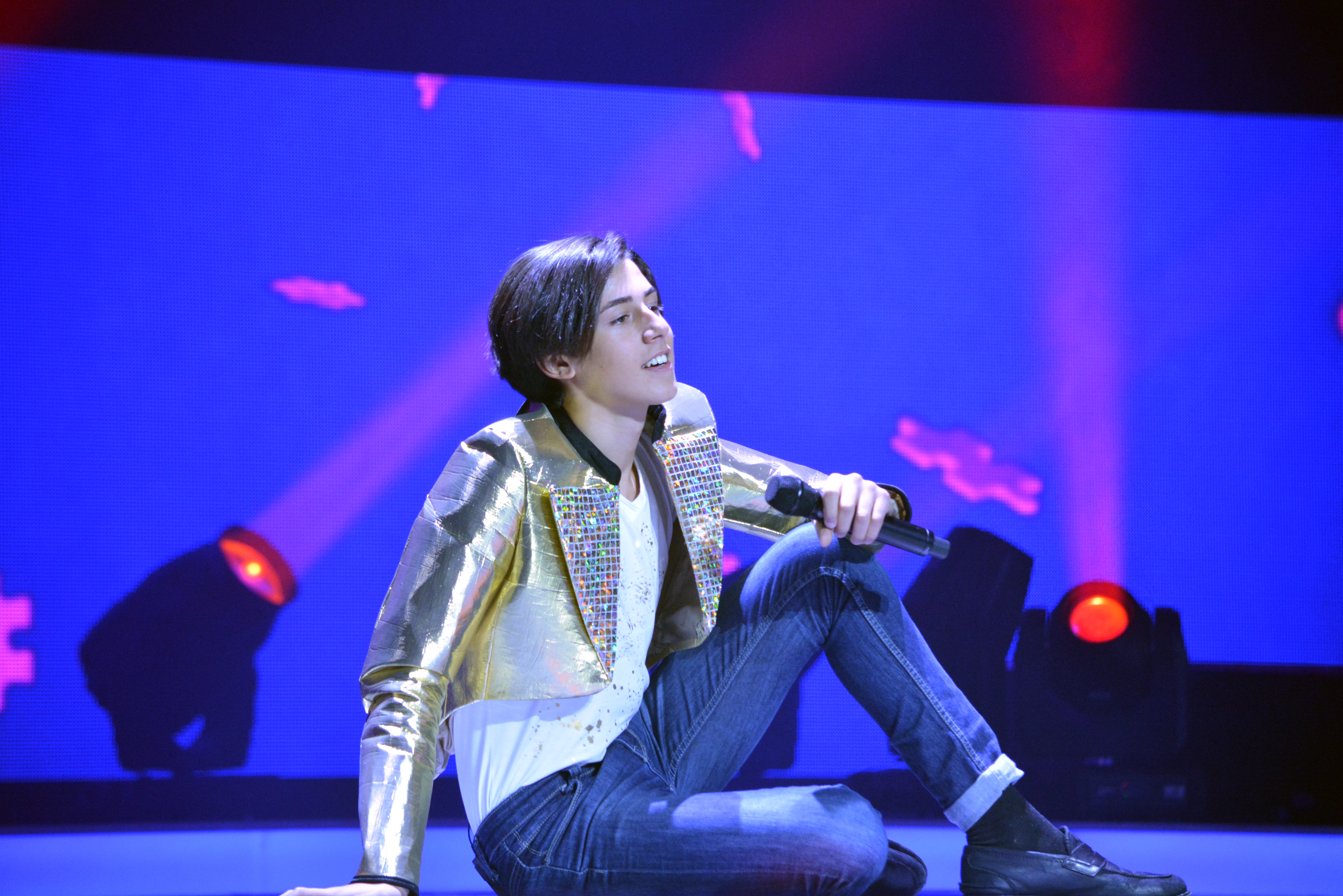 JESC 2013 (San Marino) Michele Perniola at rehearsal